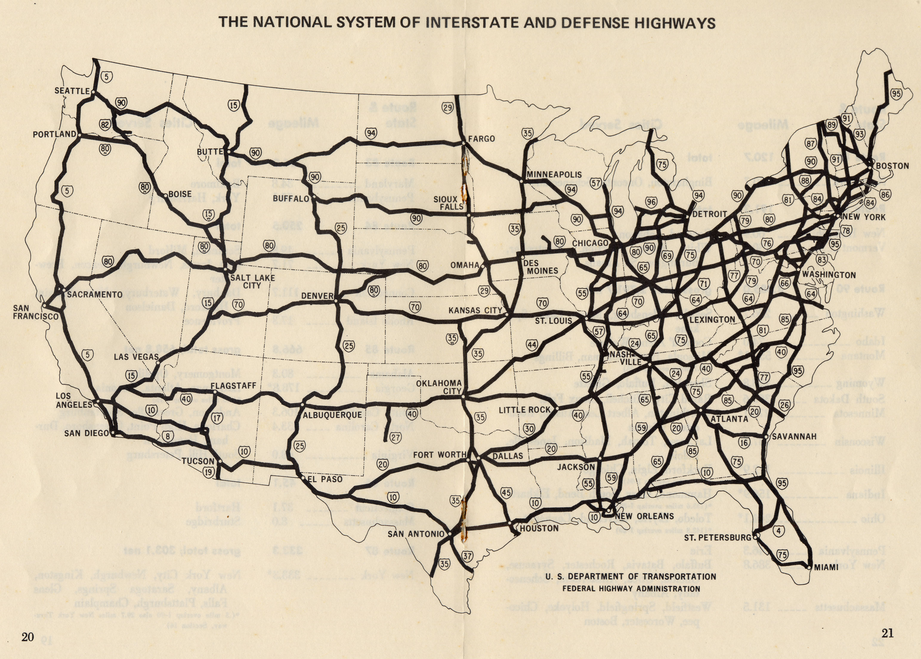 Map from the January 1971 U.S. Department of Transportation Federal Highway Administration Interstate System Route Log & Finder List. "The routes and route numbers shown are those designated as of October 1, 1970."